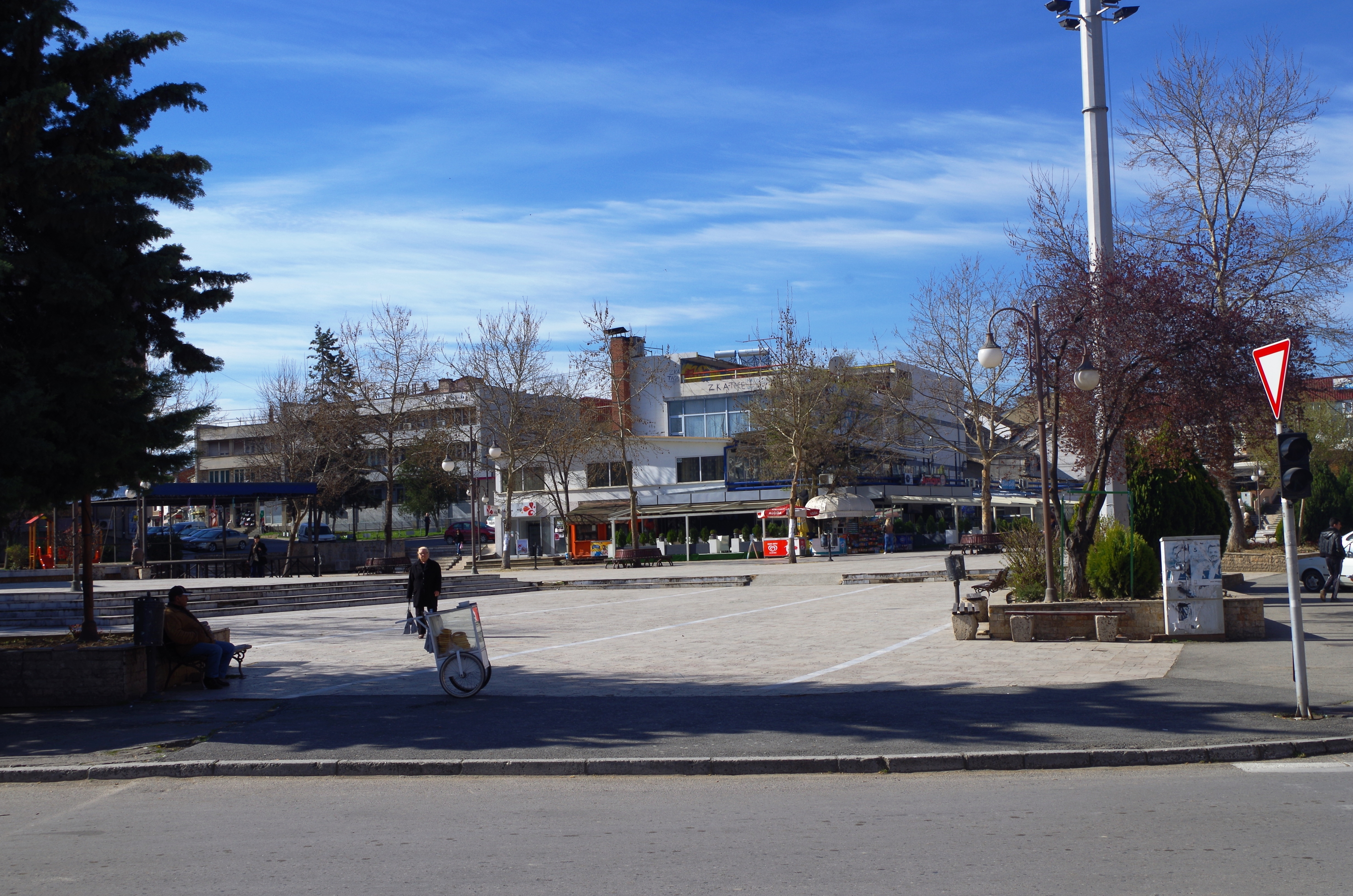 Main square in Negotino